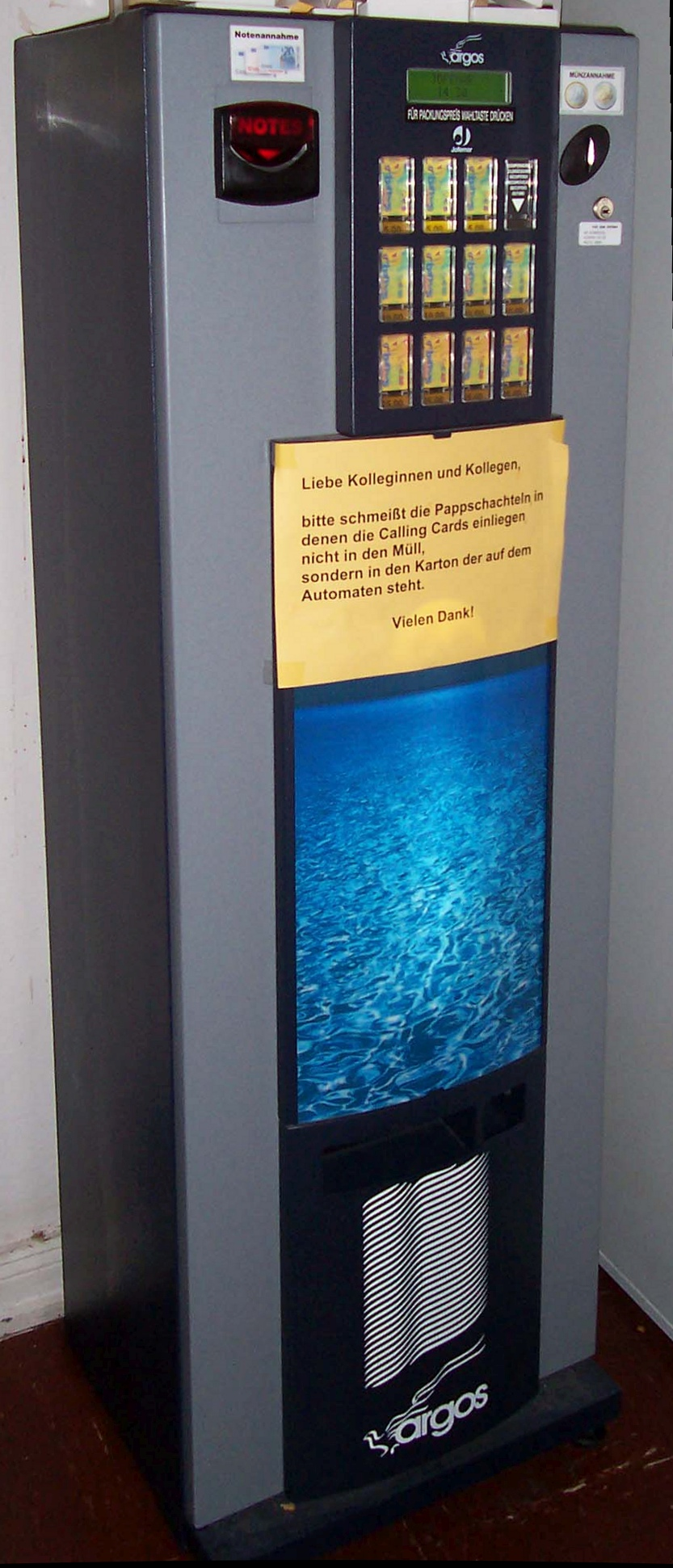 Callingcard-Automat für Callingcards bzw. Prepaidkarten